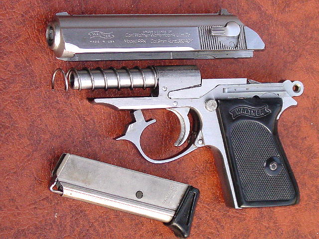 Walther PPK field stripped